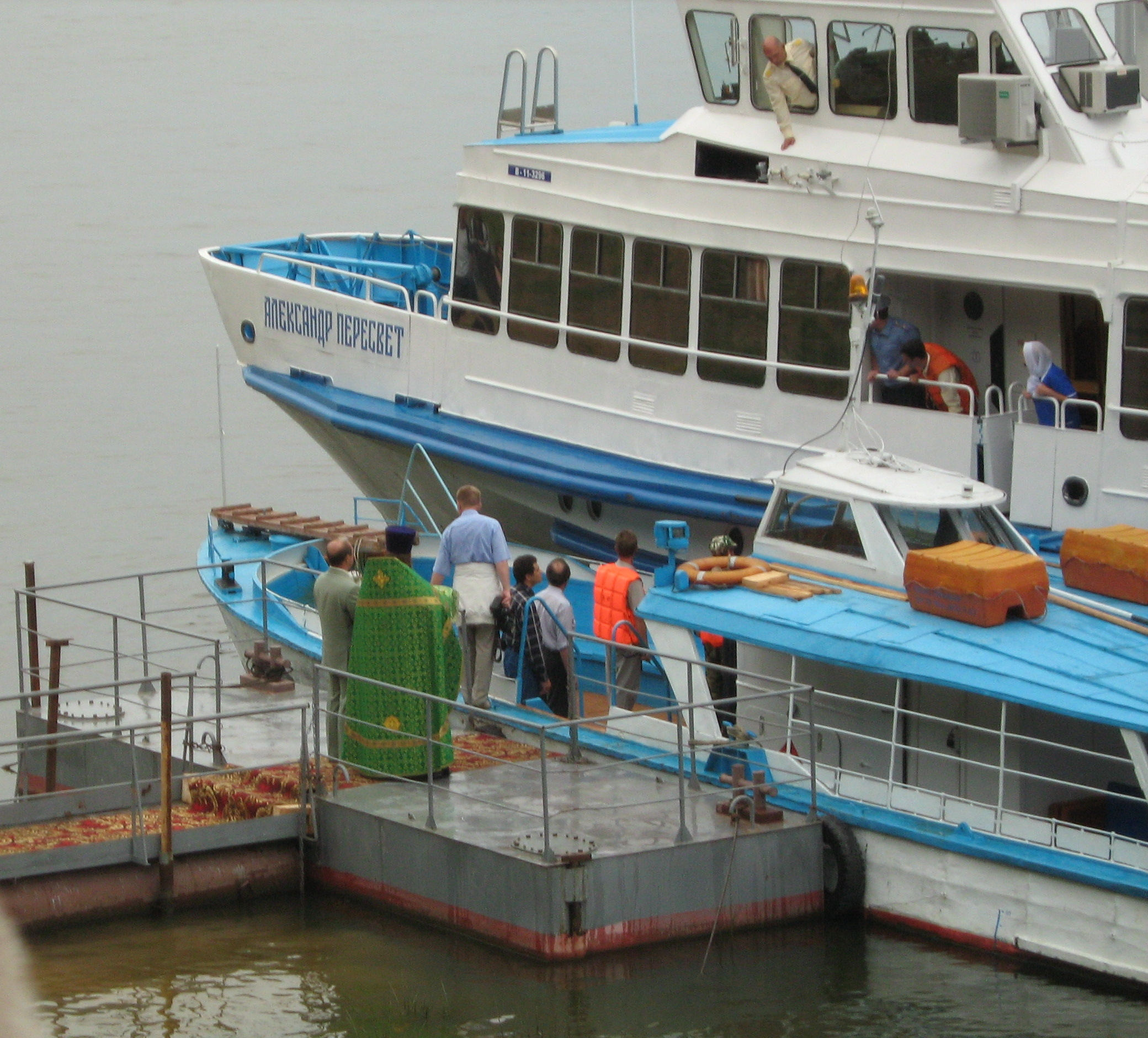 A procession in Kstovo on the occasion of the Holy Relics of Venerable Macarius passing this city on its way to Makariev Monastery, August 4, 2007